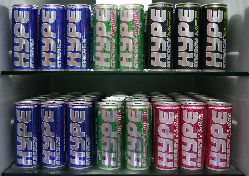 This image shows how Hype Energy's energy drink cans look like when in a refrigerator. Hype_Energy